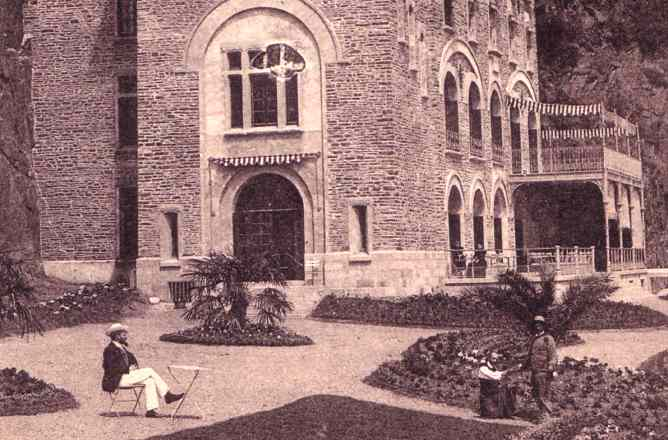 Duguesclin Hostel in Cancale (France) in 1903 (postcard sent from Cancale, 3rd of June 1903, less than one year after the opening of the hostel).